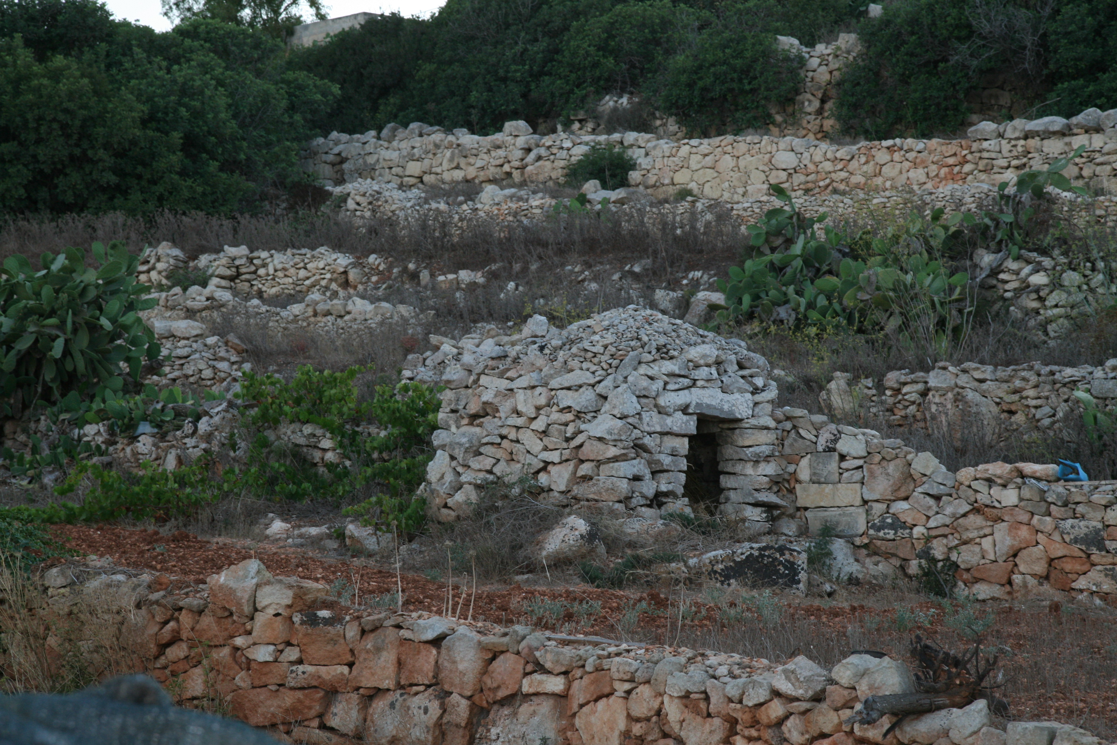 Malta modern talayot